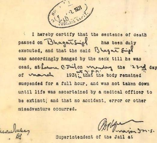 Death Certificate of Indian Freedom Fighter Bhagat Singh.